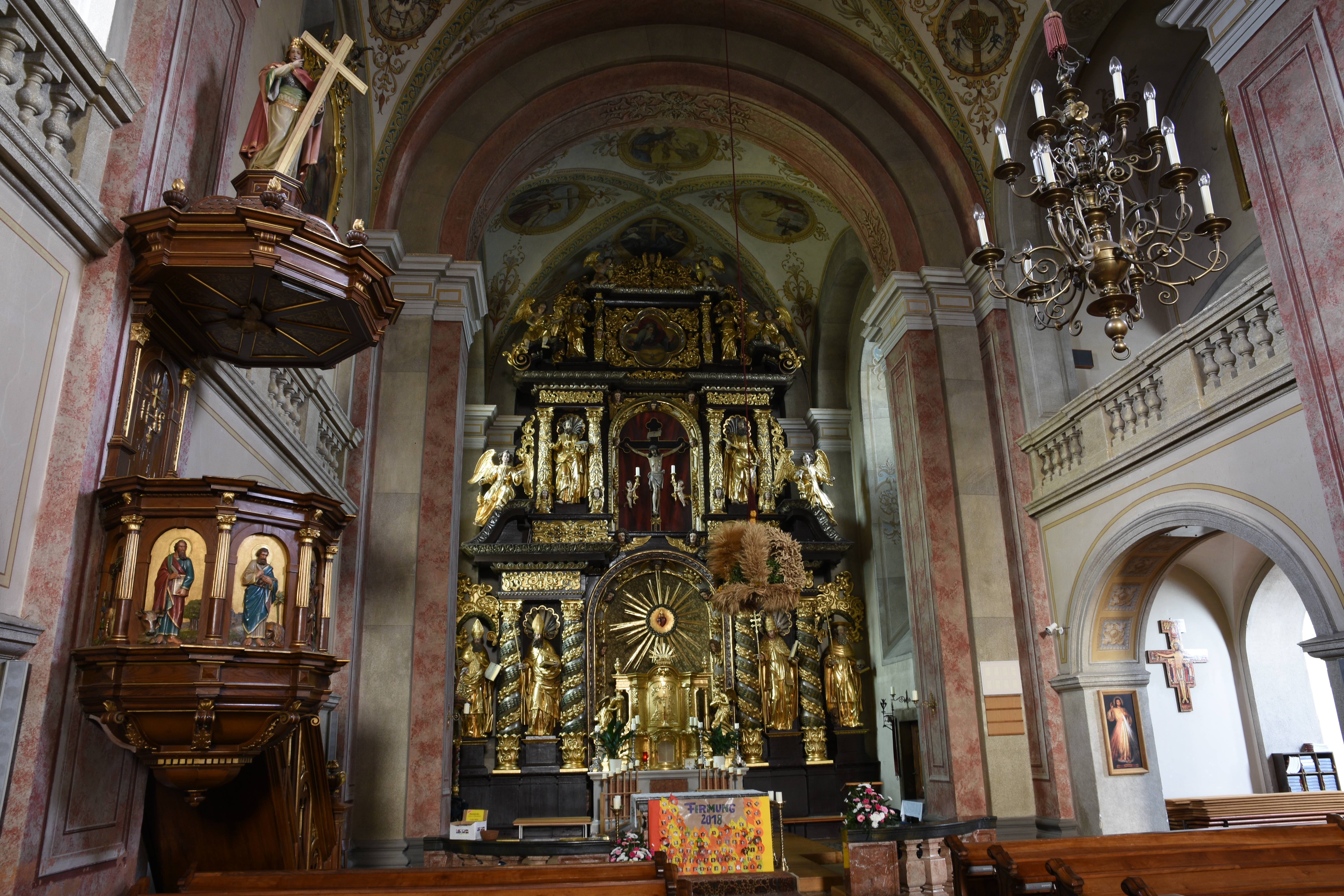 Holy Cross Church (Heiligenkreuz am Waasen) - Interior